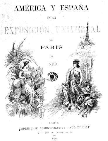 Universal Exposition Paris 1889